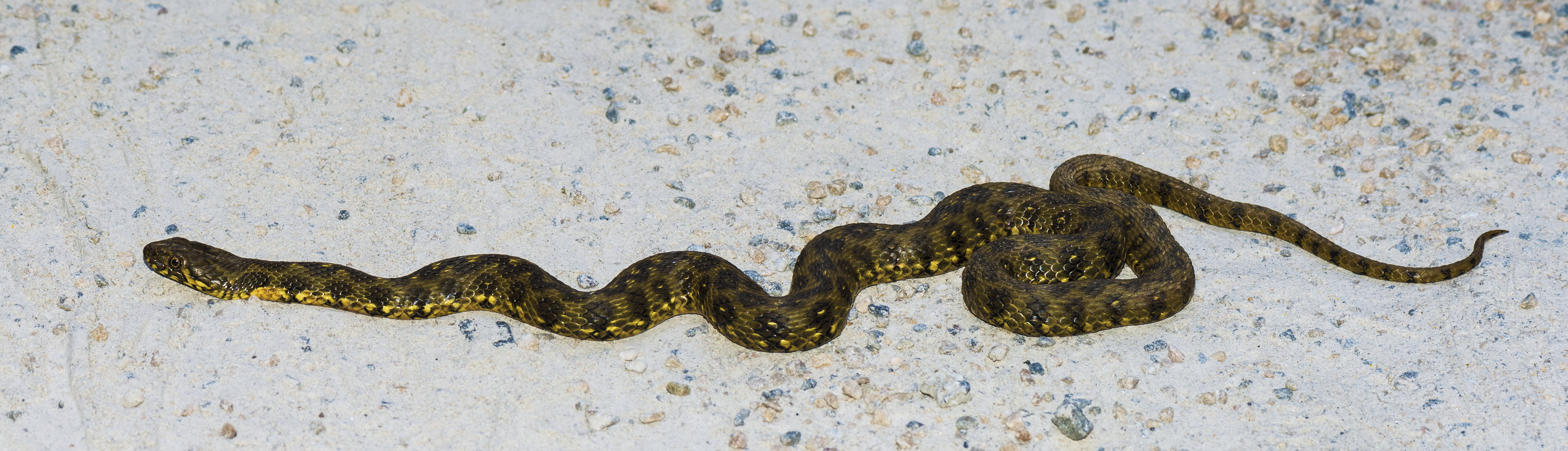 Natrix maura (Viperine water snake).